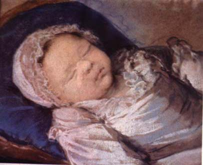 Princess Marie Sophie Hélène Béatrix de France, youngest child of King Louis XVI. of France and Queen Marie Antoinette of France, granddaughter of Empress Maria Theresia of Austria and Holy Roman Emperor Franz I. Stephan of Lorraine, Sophie Hélène Béatrix de France asleep in her cradle, pastel, 1786, 9-5/8 x 12-3/4 inches,Collection marquis de Lastic, Château de Parentignat, The youngest child of Louis XVI and Marie Antoinette was born 9 July 1786 and died 19 June 1787, drawn at the same time as Louis Charles, duc de Normandie, 1786.